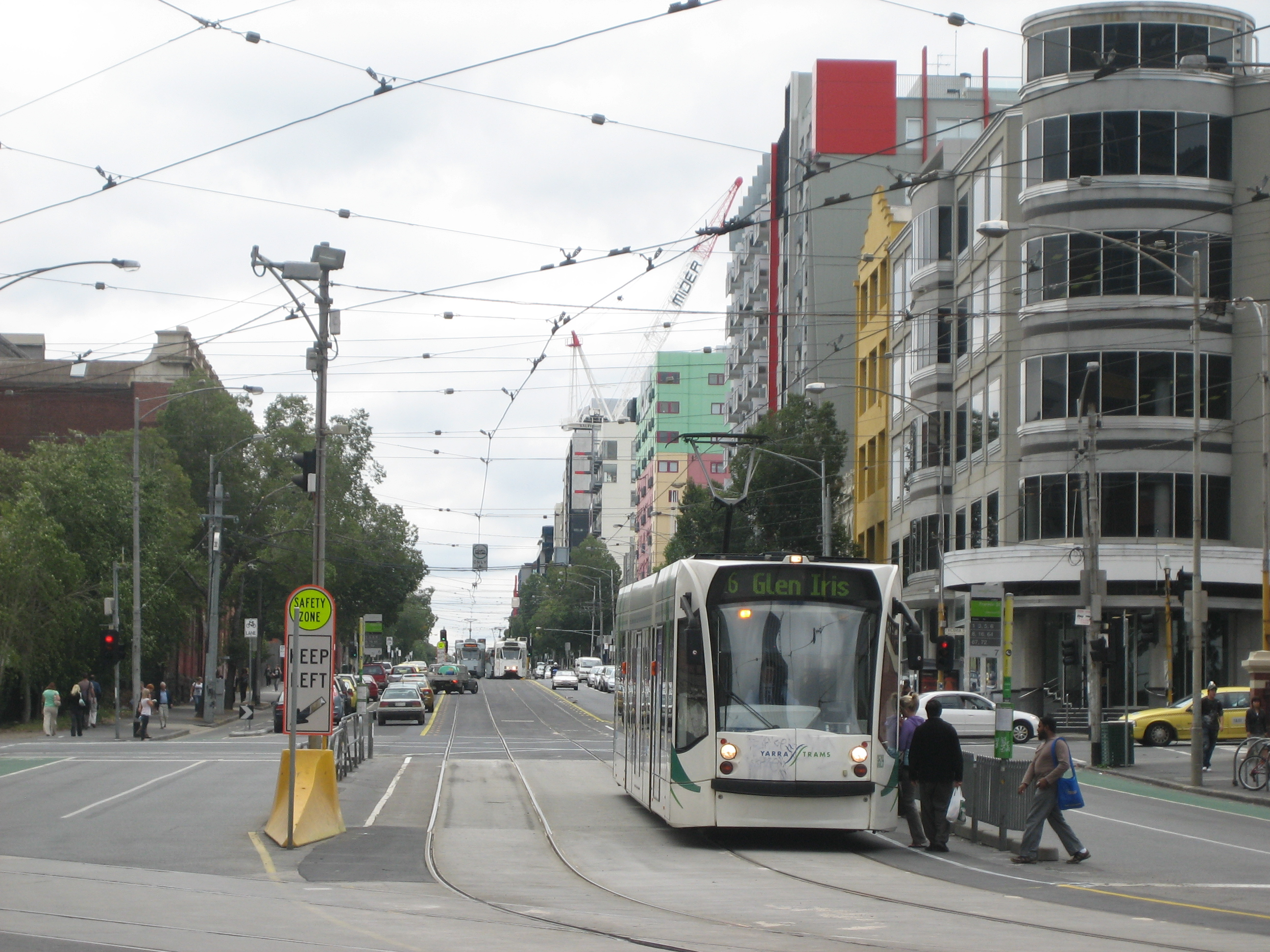 D1 3529 (tram) in Swanston St, intersection with Victoria St, on route 6, Melbourne, Australia. To note that the tram stop itself has now been moved to the south side of the Franklin St intersection